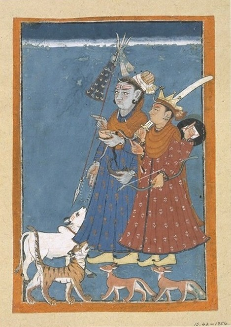 Shiva and Devi, 1740-1770 painting. Mandi India. The slate blue background is typical of Mandi painting in the 18th century.